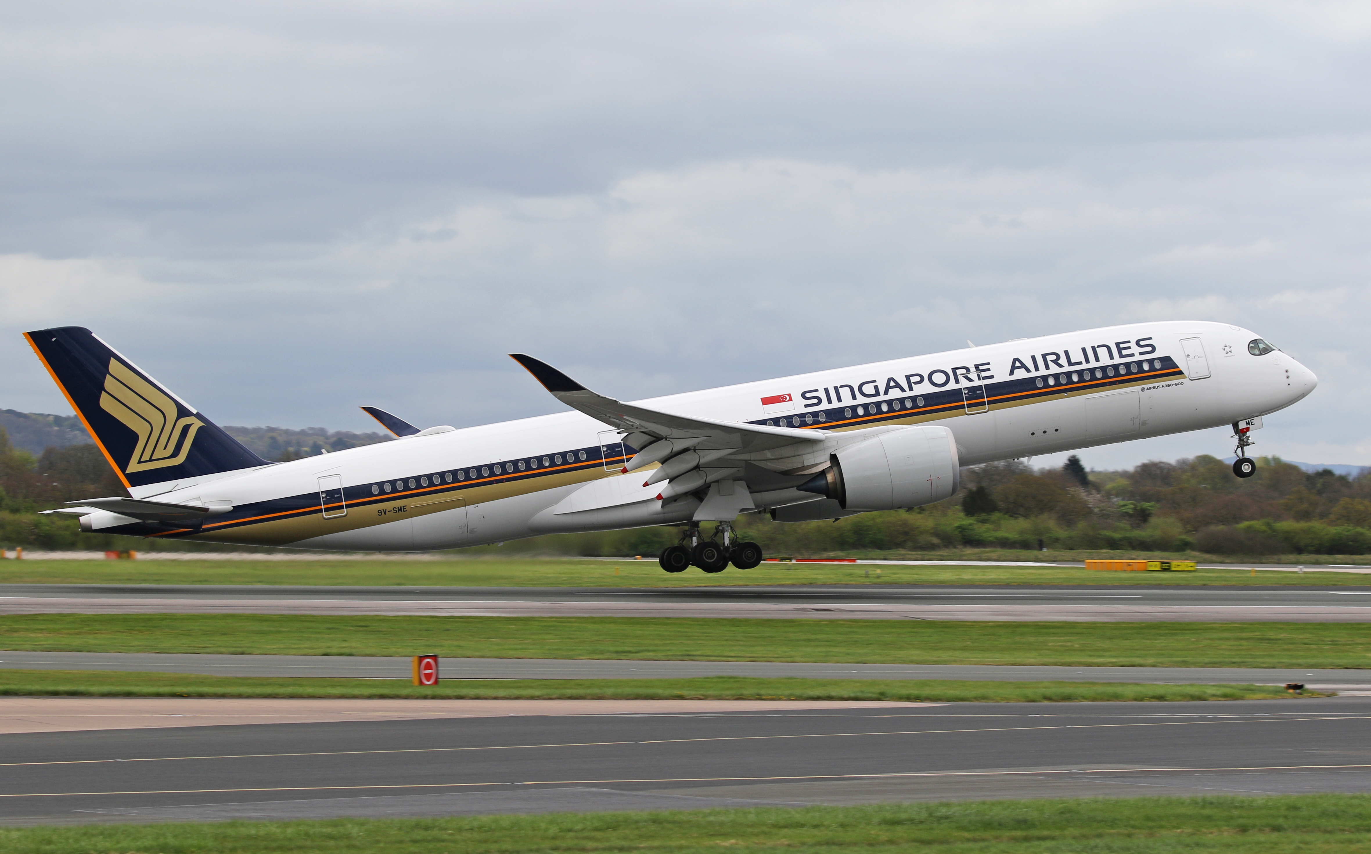 Singapore Airlines Airbus A350 at Manchester Airport